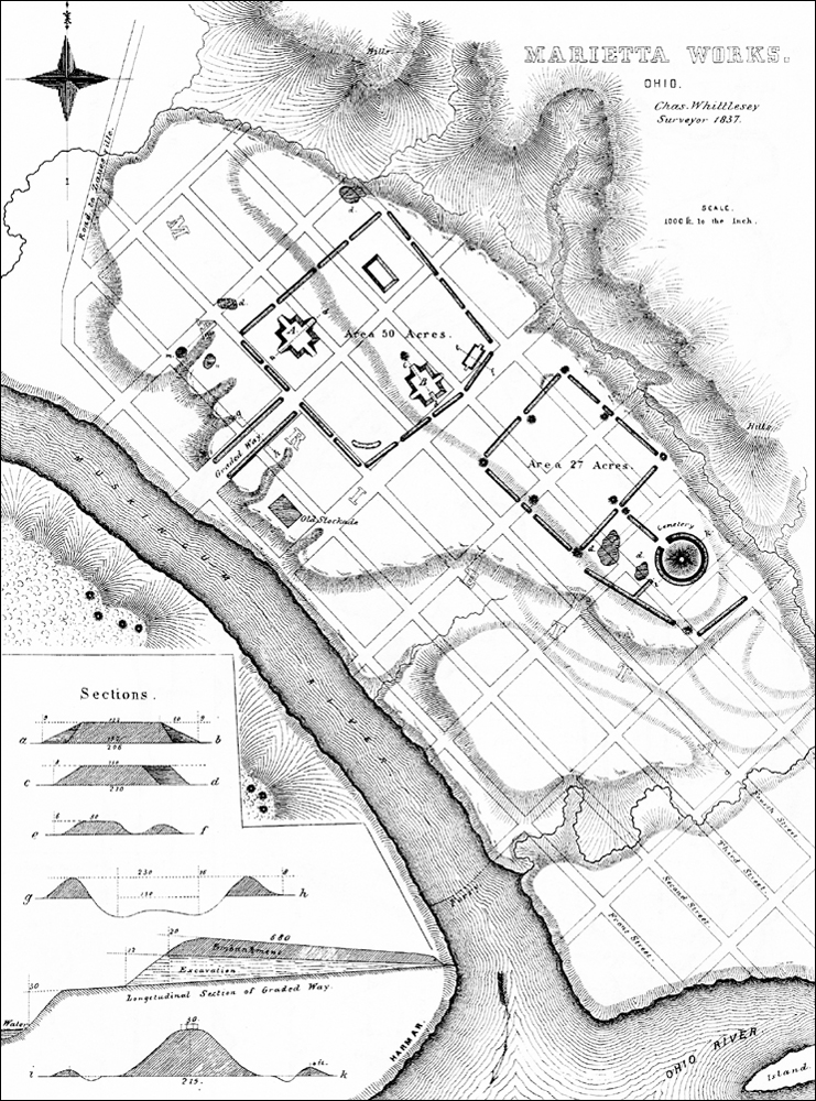 Squier and Davis engraving, plate number XXVI, of the Marietta earthworks in Washington County, Ohio. The Conus Mound is now the location of the Mound Cemetery